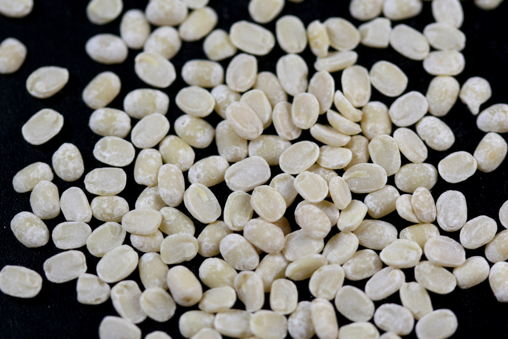 White lentils (also known as urad in India).